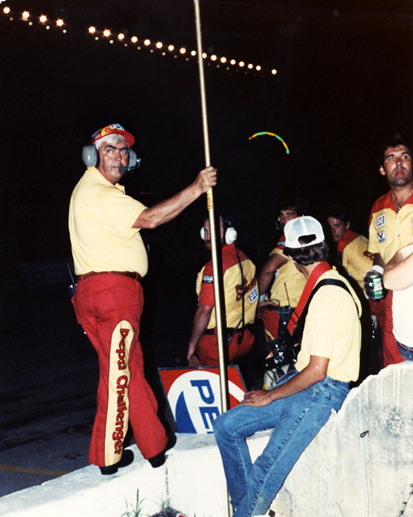 Junior Johnson, Car Owner, Crew Chief at the Nashville 420, July 16, 1983